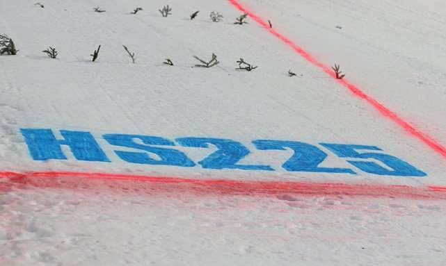 Hill Size line of Vikersundbakken